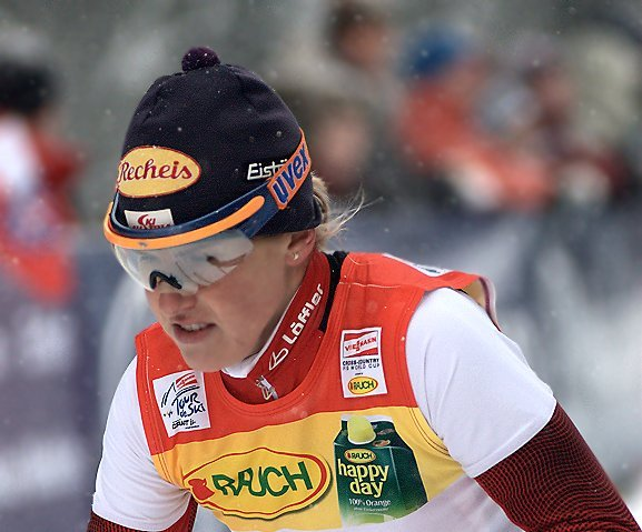 Katerina Smutna at the Tour de Ski 2010 in Oberhof